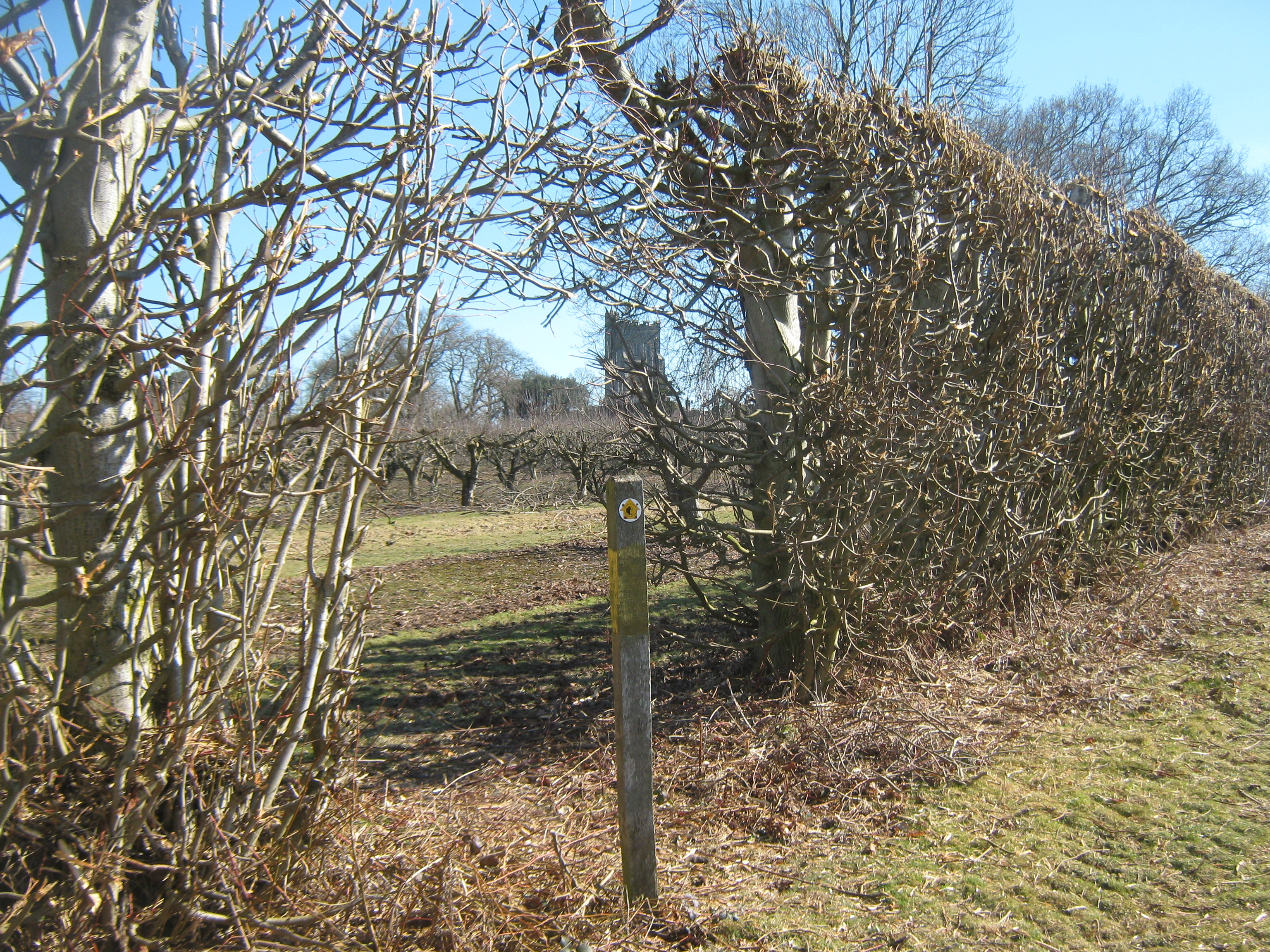 High Weald Landscape Trail through an orchard to Wittersham The long distance path heads from Bates Gill towards The Street, Wittersham. Wittersham Parish Church is seen in the background.